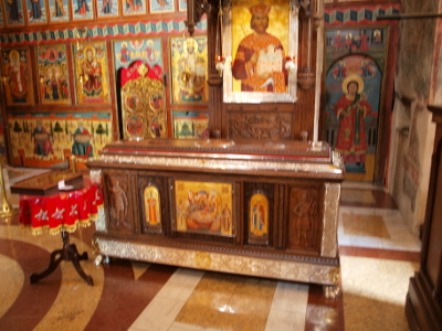 Tomb of Tsar Lazar (Lazar of Serbia),one of most notable Serbian medieval rulers and Serbian saint.